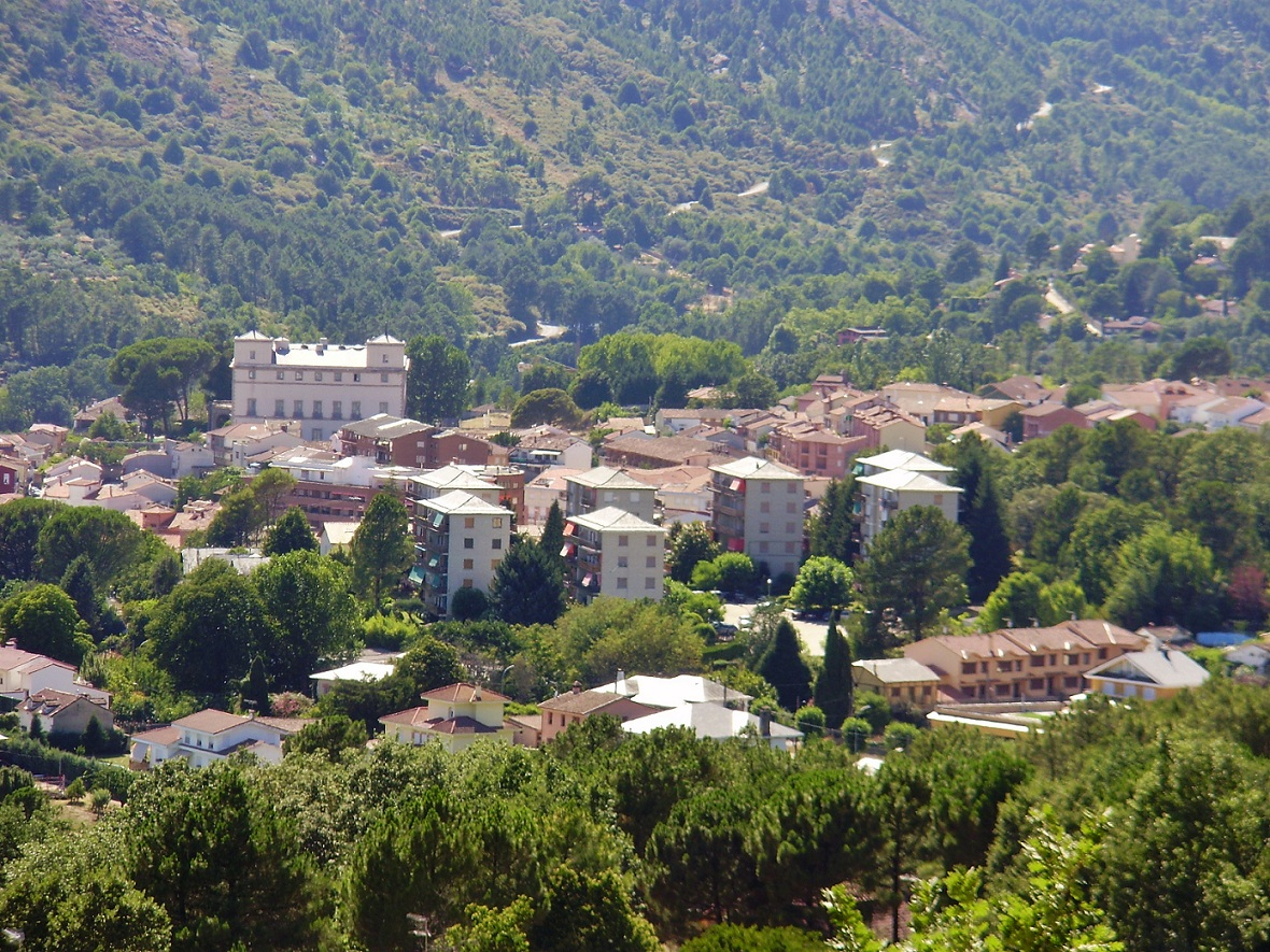 Arenas de San Pedro (Ávila, Spain)